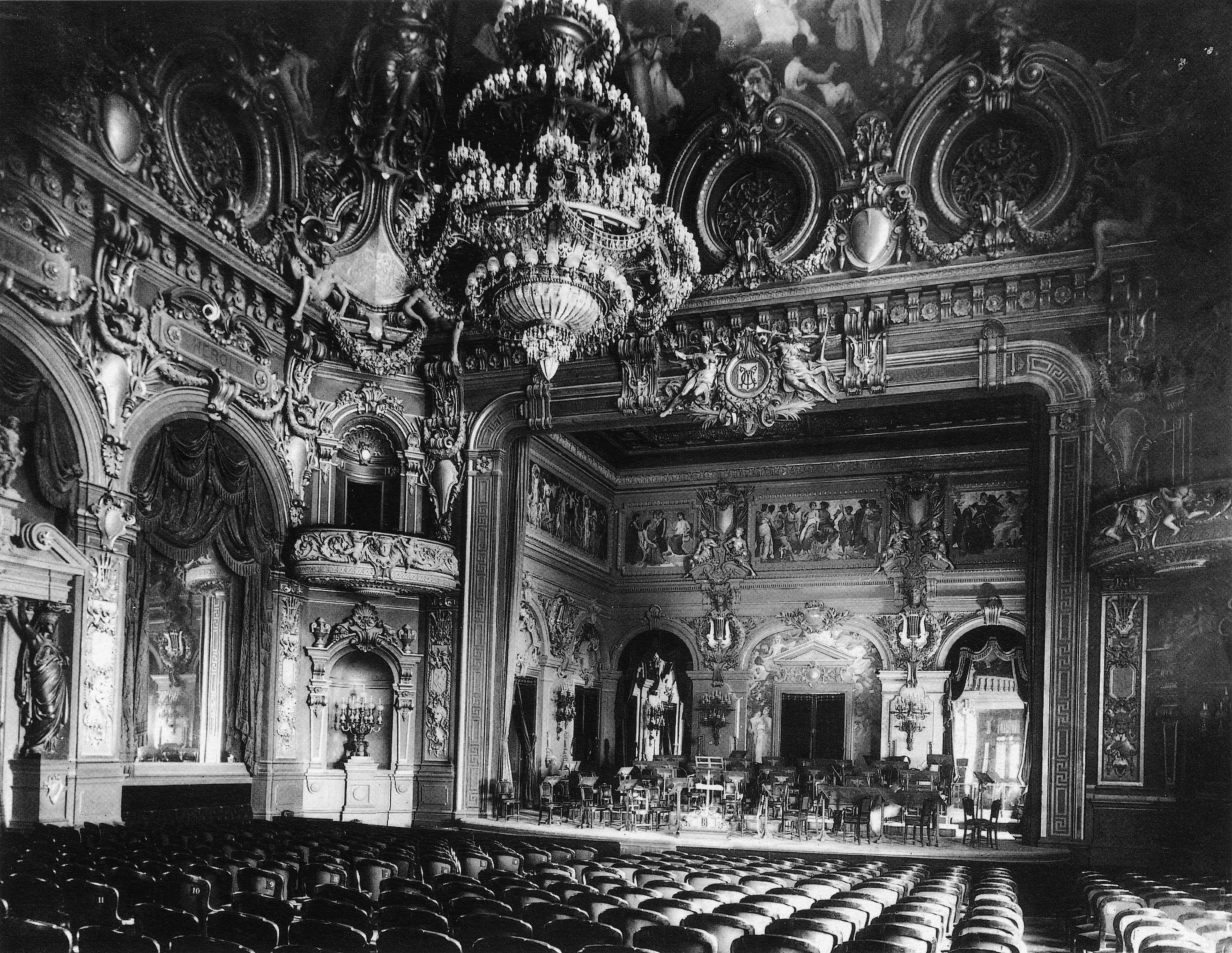 Photograph of the auditorium and stage of the Salle Garnier, concert hall of the Monte Carlo Casino as it appeared c. 1879, shortly after it opened. The theatre later became the home of the Opéra de Monte-Carlo.